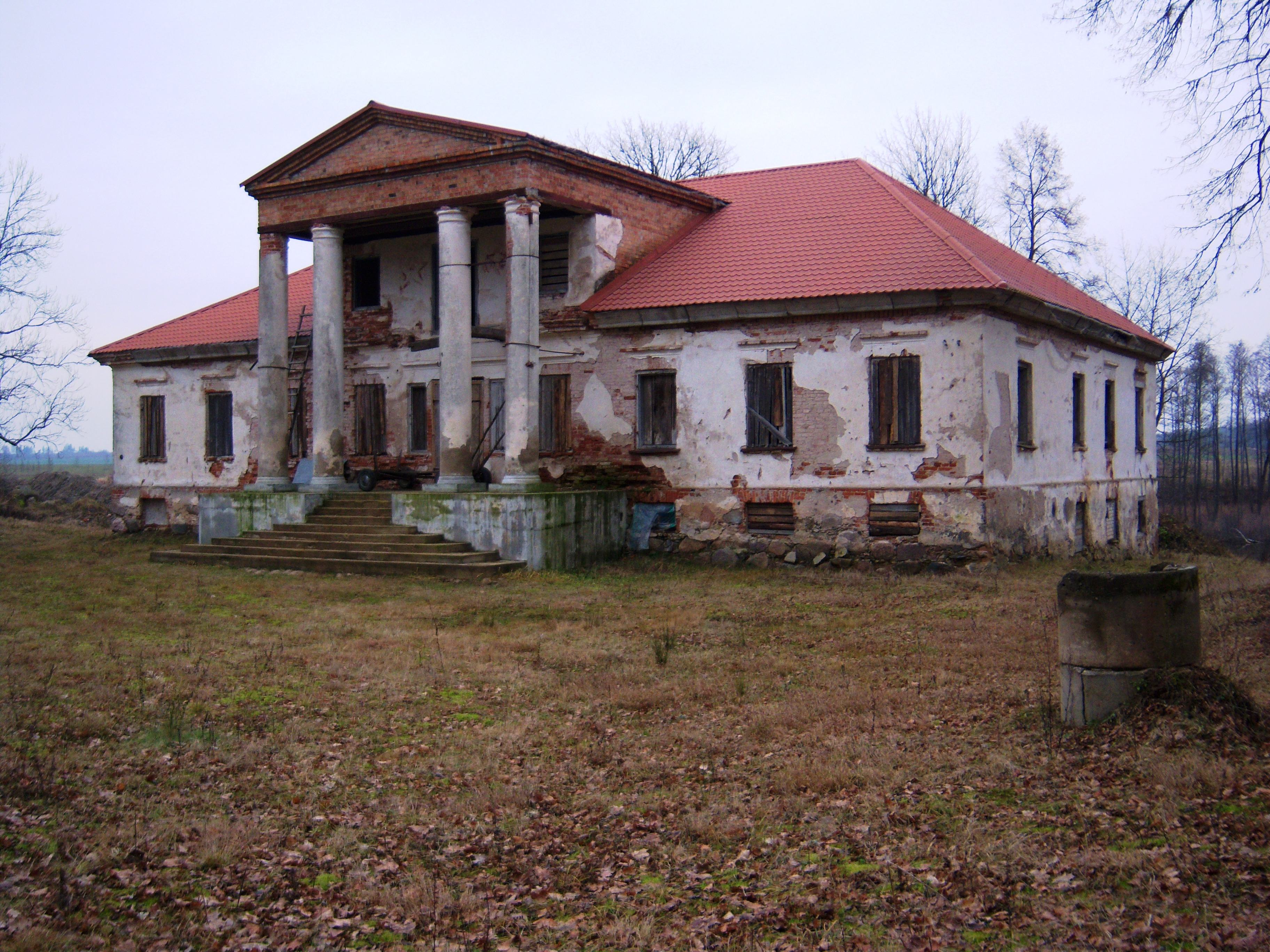 Skaraitiškė manor, Raseiniai District, Lithuania